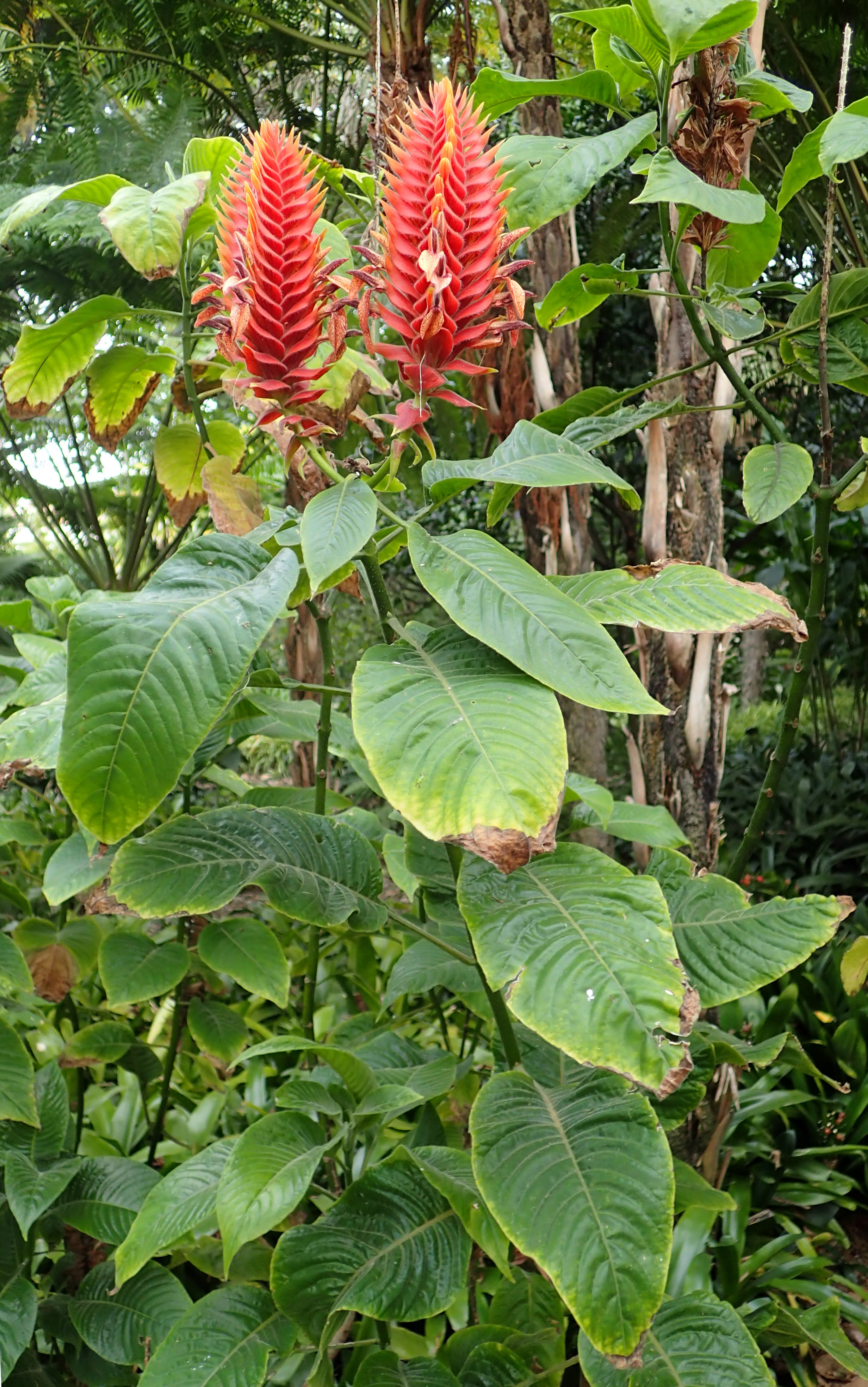 Aphelandra flava in Jardín de Aclimatación de la Orotava